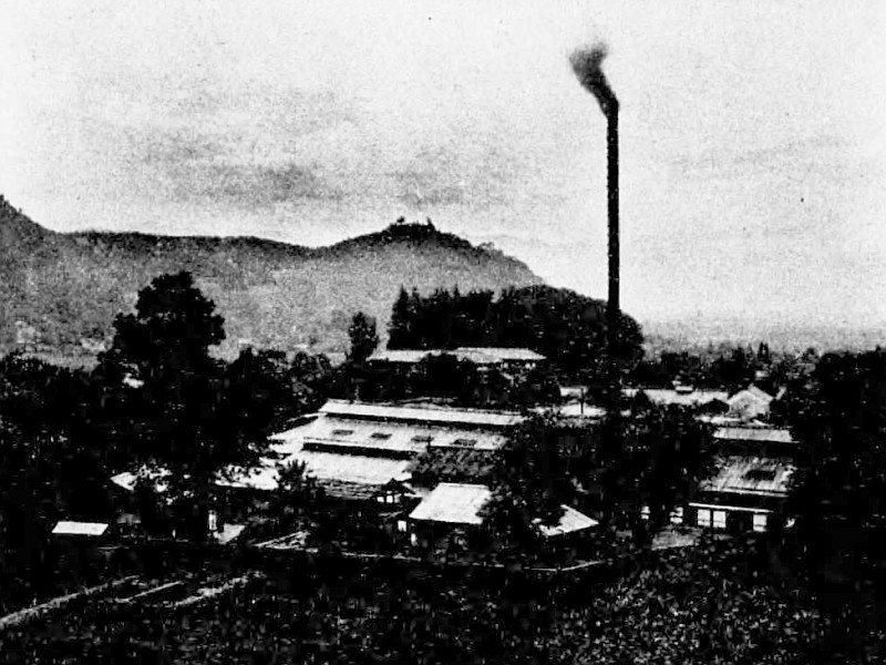 Rokkosha.